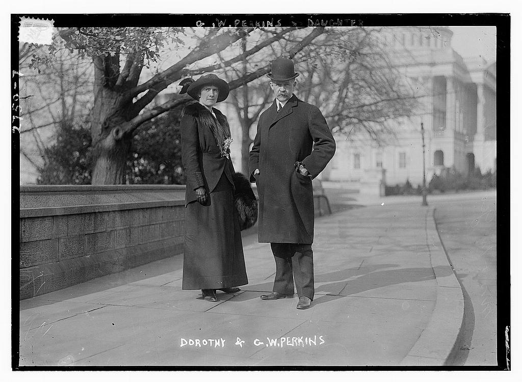 Bain News Service,, publisher. Dorothy and G. W. Perkins [no date recorded on caption card] 1 negative : glass ; 5 x 7 in. or smaller. Notes: Title from unverified data provided by the Bain News Service on the negatives or caption cards. Forms part of: George Grantham Bain Collection (Library of Congress). Format: Glass negatives. Repository: Library of Congress, Prints and Photographs Division, Washington, D.C. 20540 USA, General information about the Bain Collection is available at Persistent URL: Call Number: LC-B2- 2750-7